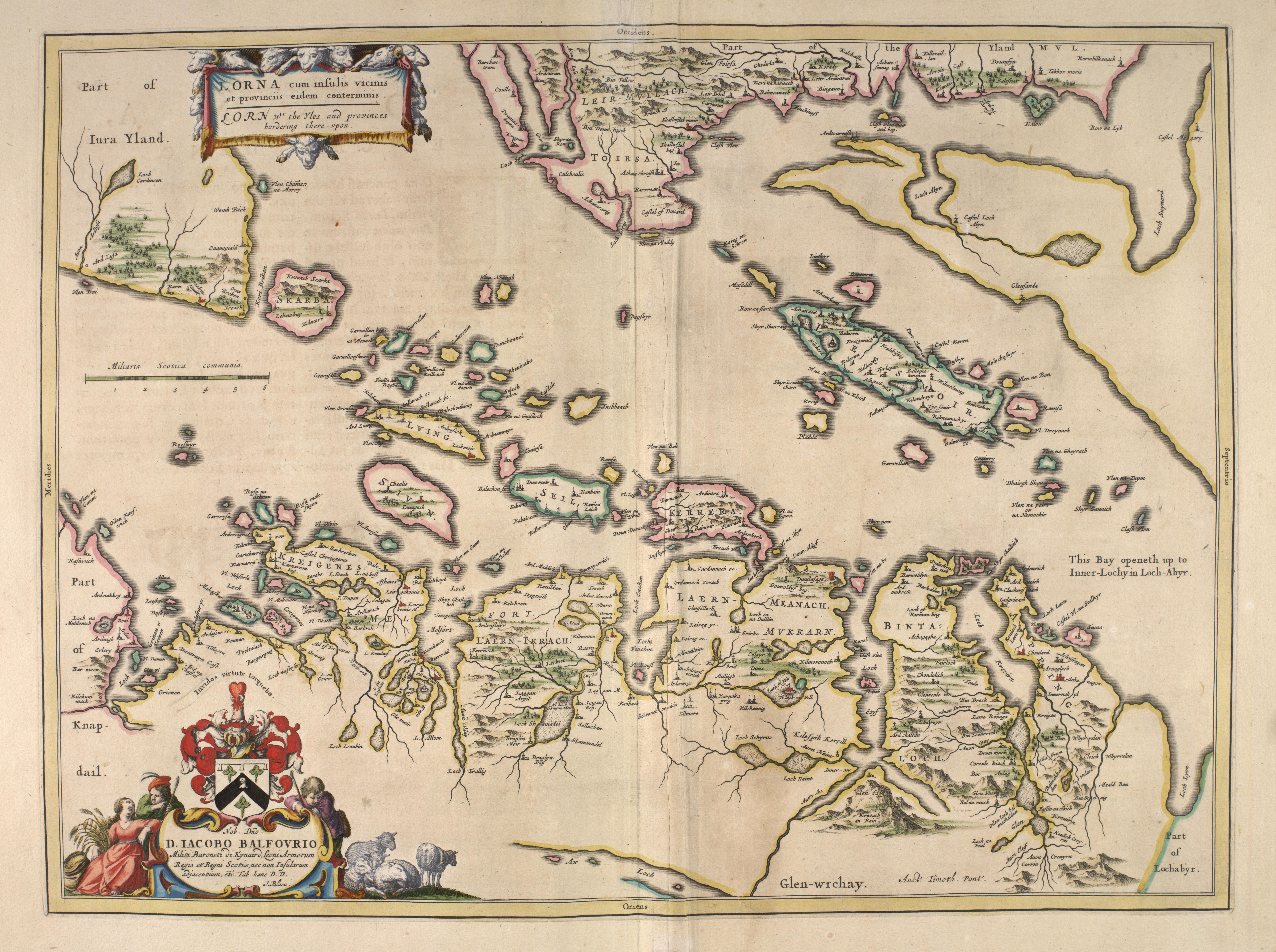 LORNA - The Firth of Lorn